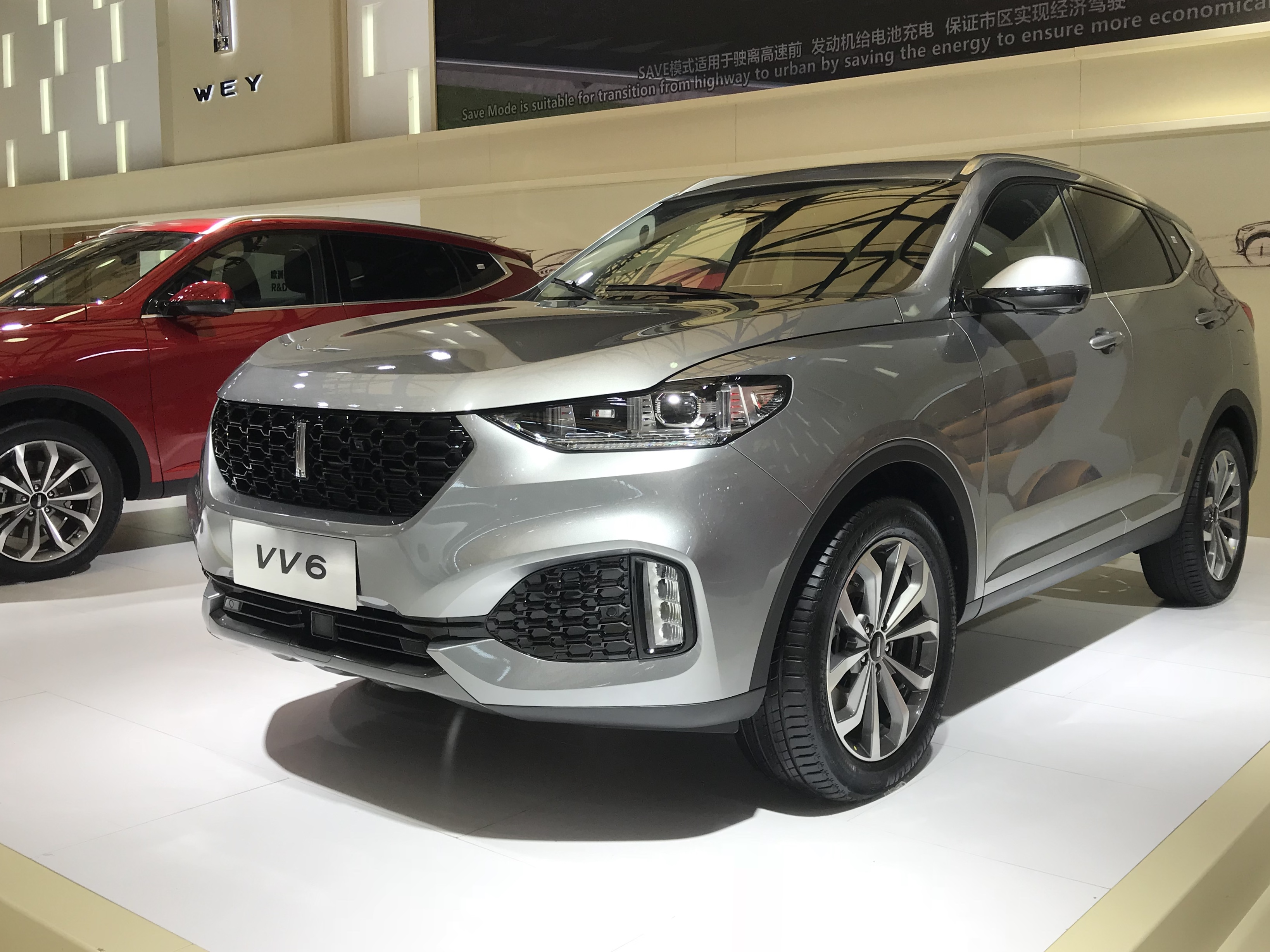 WEY VV6